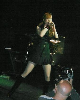 Shot of Shirley Manson taken at Brixton Academy on June 9th, 2005. Taken with a disposable camera. Also has been uploaded by myself previously to where I hold a user account.